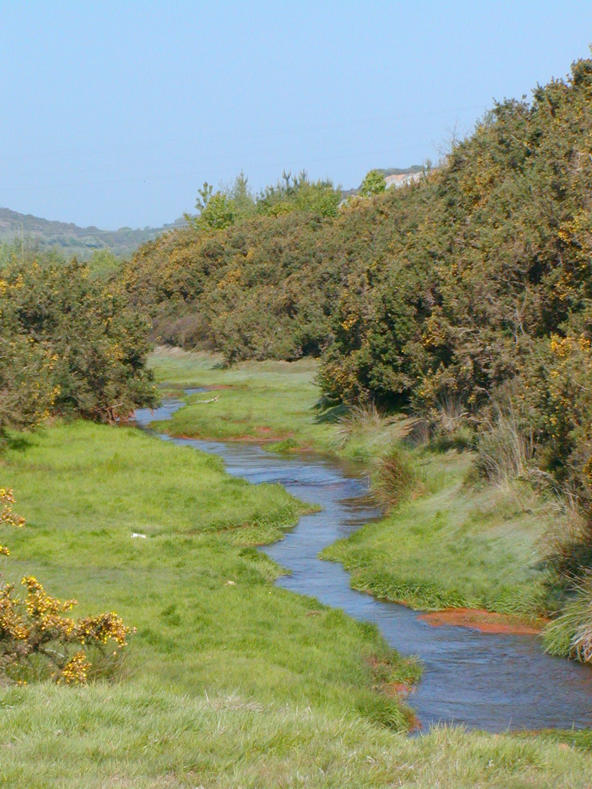 Recultivated mining area north of Devoran, Cornwall - rustcolored soil and pea-green grass